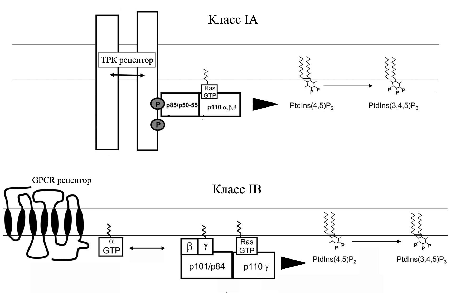 Механизмы активации PI3K